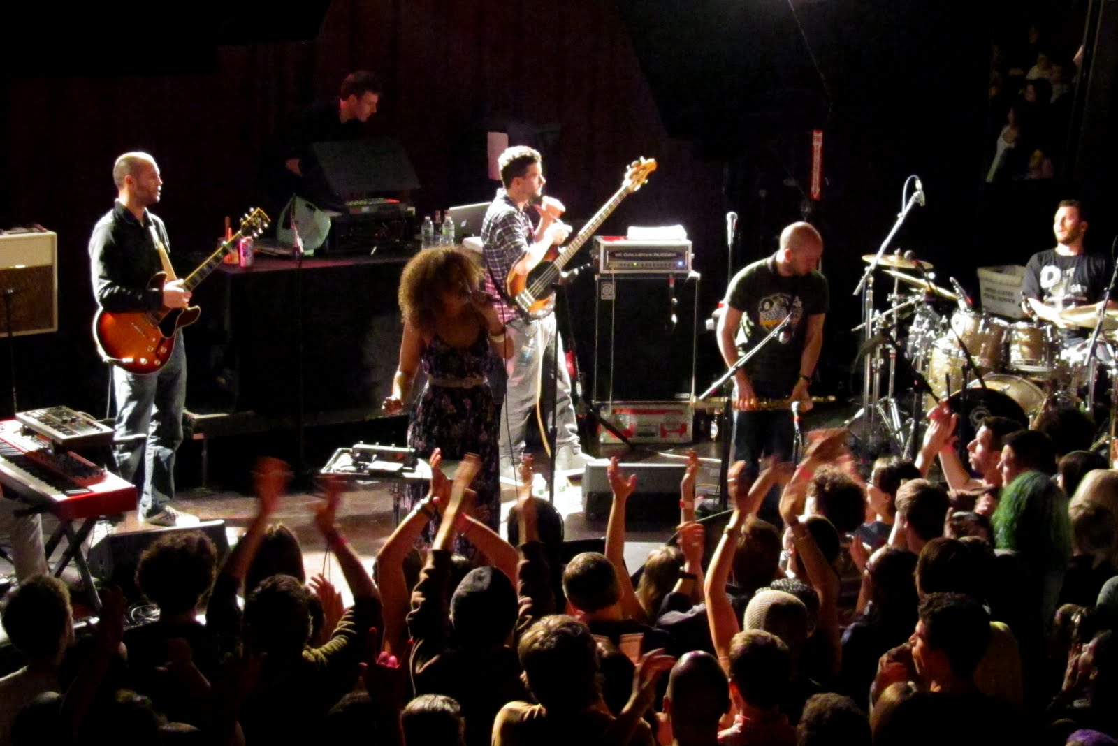 Bonobo (a.k.a Simon Green) Live Band w/ Andreya Triana - April 2010